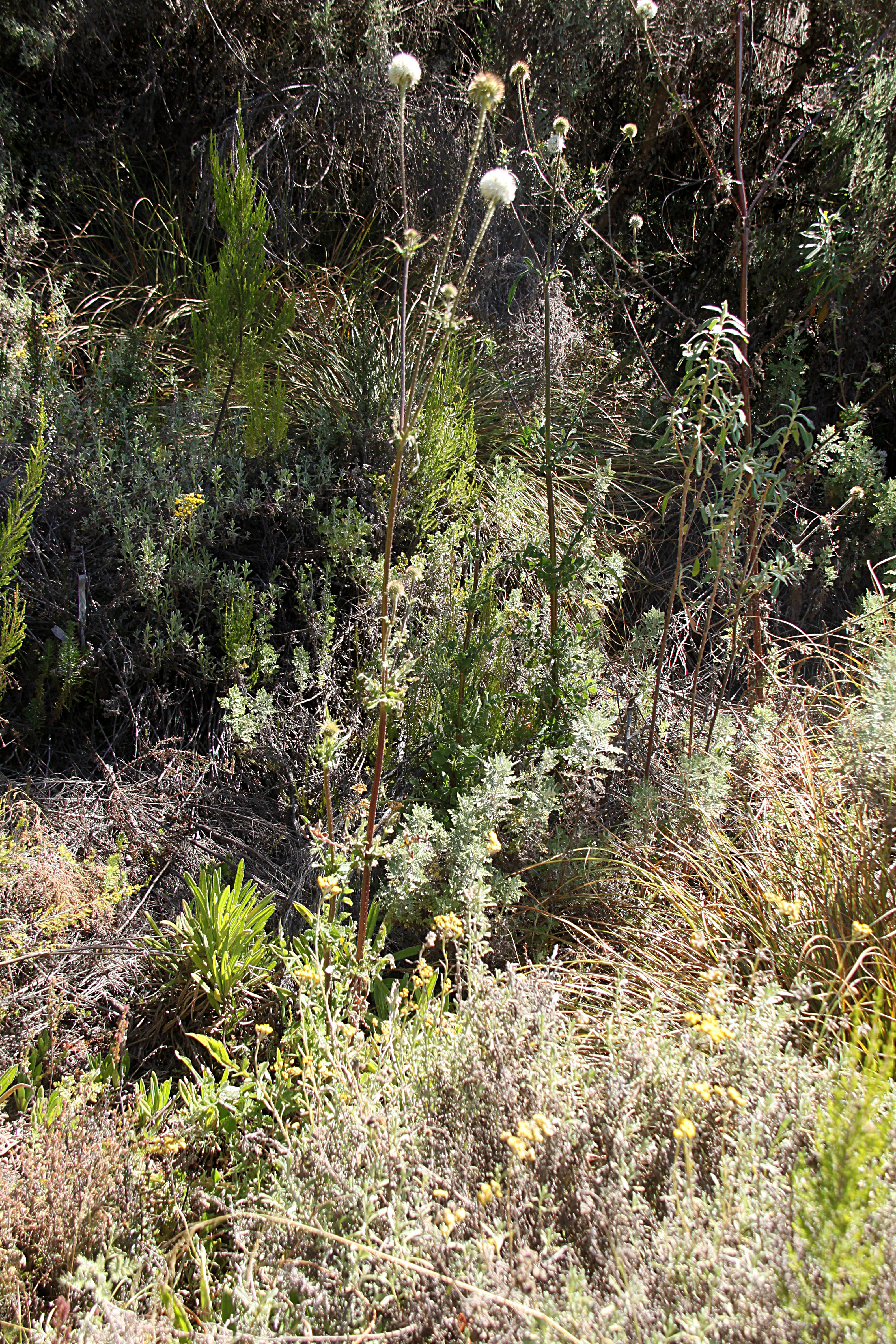 Habit of he teasel Dipsacus pinnatifidus, flower head approximately 4 cm across, plants about 2 m high, photographed along the Chogoria route, Mount Kenya, at approximately 3000 m altitude